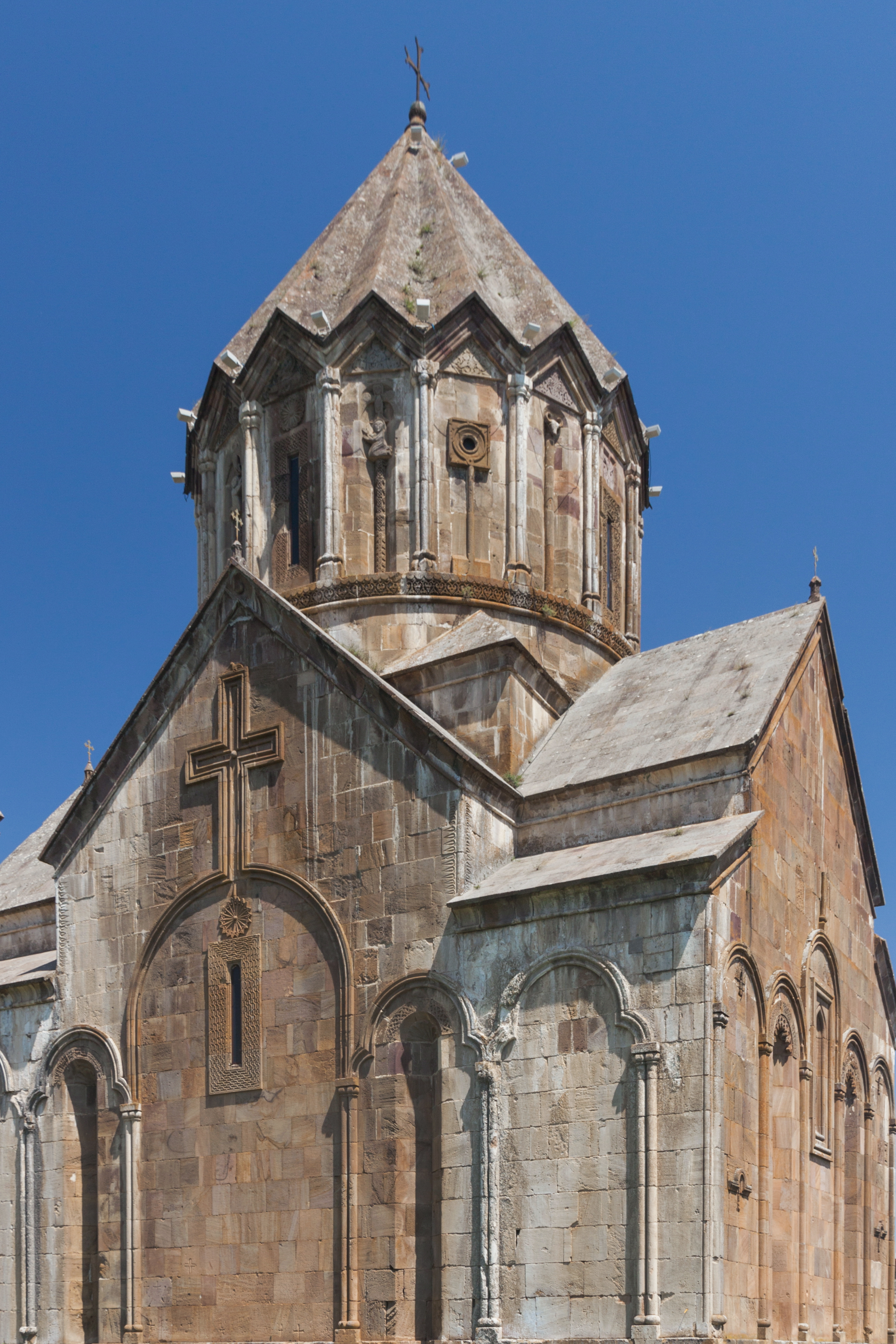 Saint John the Baptist church. Gandzasar monastery. Nagorno-Karabakh.